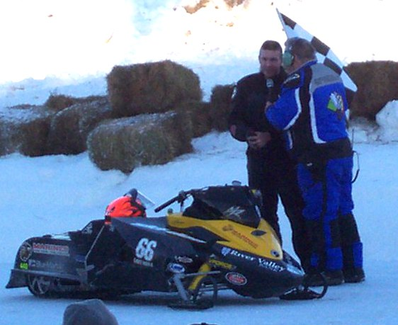 Gary Moyle, multiple time winner of the World Championship Snowmobile Derby race, being interviewed at a Plymouth, Wisconsin USSA snowmobile race where he finished second.